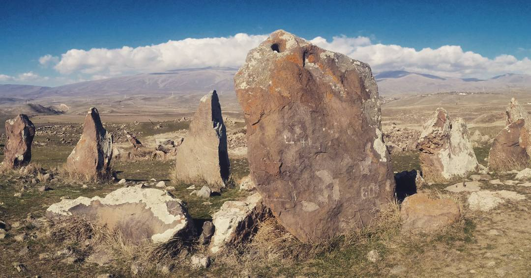 A general view of the Karahunj site near Sisian, Southern Armenia.